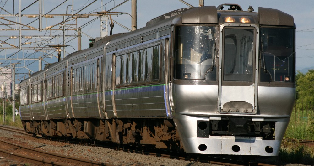 JR-HOKKAIDO SERIES785 ELECTRIC TRAIN